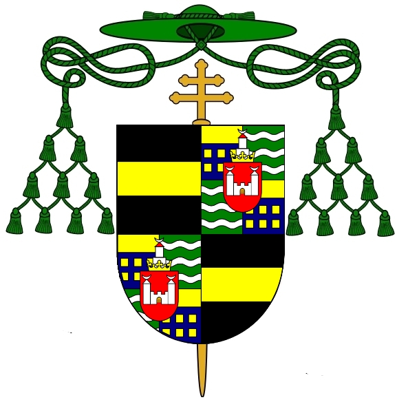 Coat of arms of Paul Graf Huyn, Archbishop of Prag 1916-1919